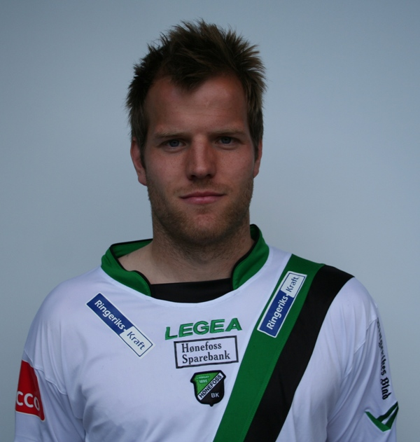 Kevin Larsen, norsk fotballspiller som spiller for Hønefoss Ballklubb.